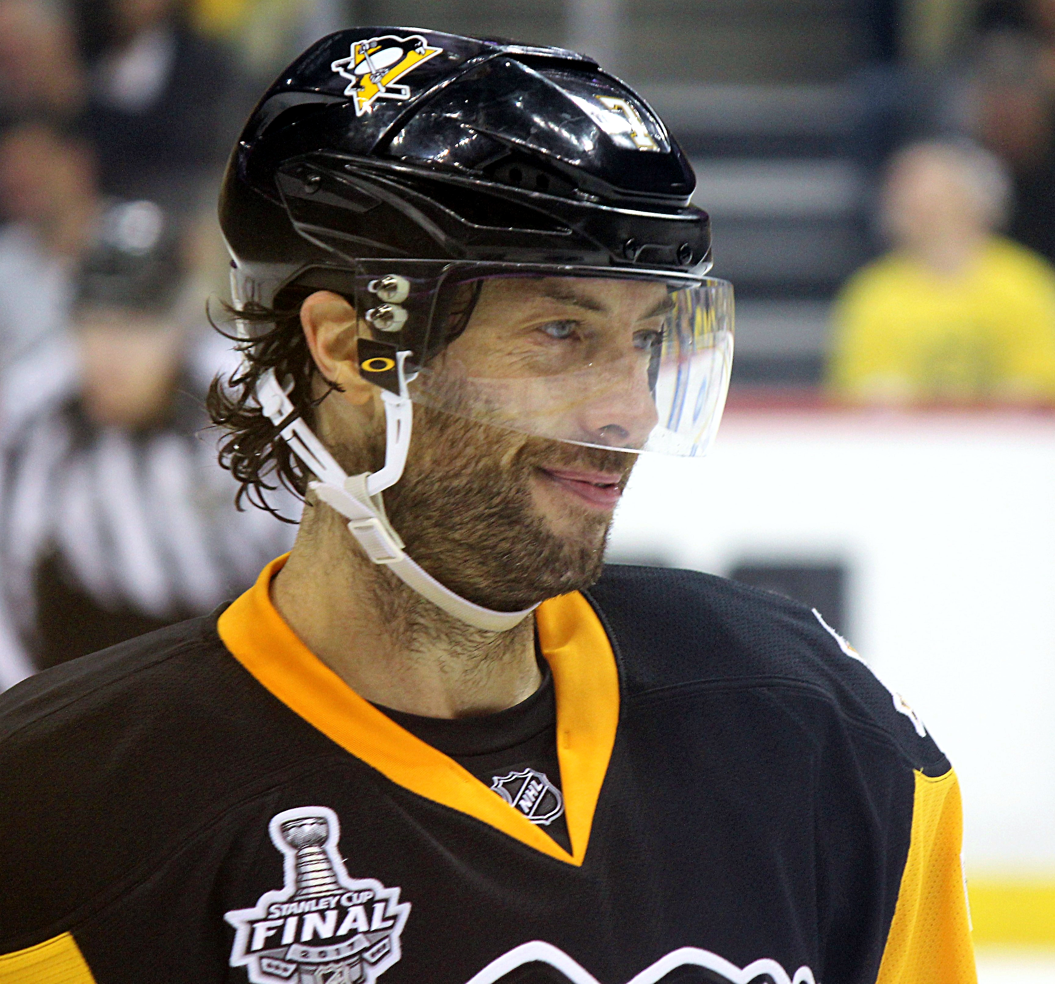 Pittsburgh Penguins forward Matt Cullen during game 5 of the Stanley Cup Final against the Predators, June 8, 2017, at PPG Paints Arena in Pittsburgh, PA.